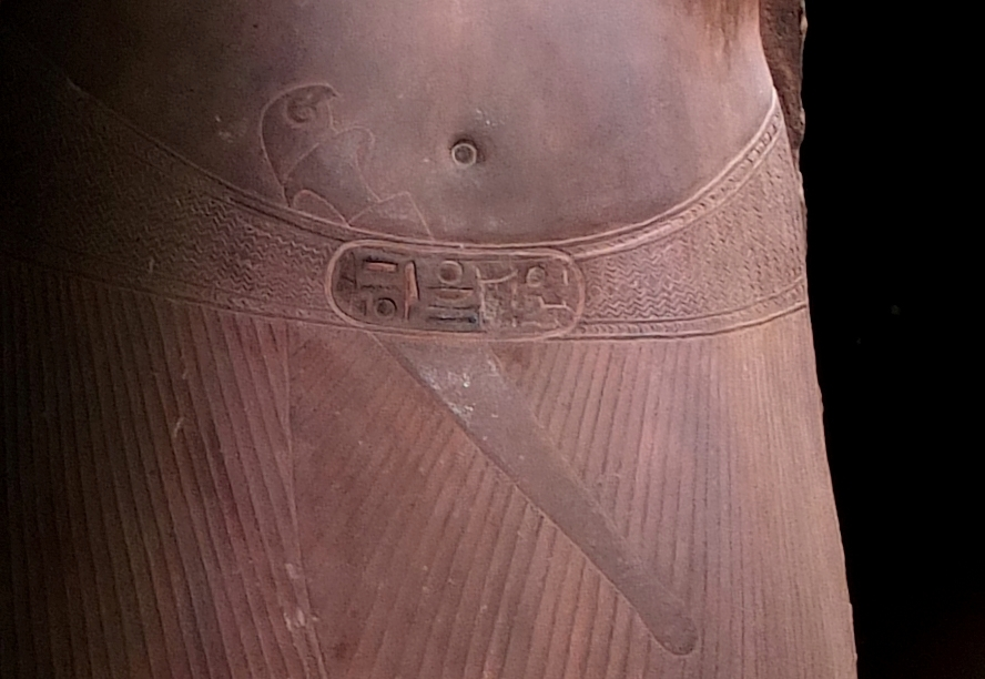 Detail of colossal statue of Tutankhamun. Painted quartzite. From Thebes, Funerary Temple of Ay and Horembheb. New Kindom, 18th Dynasty, Reigns of Tutankhamun, Ay and Horemheb (1355-1315 BCE) - Musée du Caire. Exposed in Paris's exposition "Toutânkhamon, le trésor du pharaon" march-september 2019, Grande halle de la Villette.